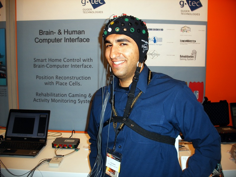 A demonstration of a brain-computer interface.